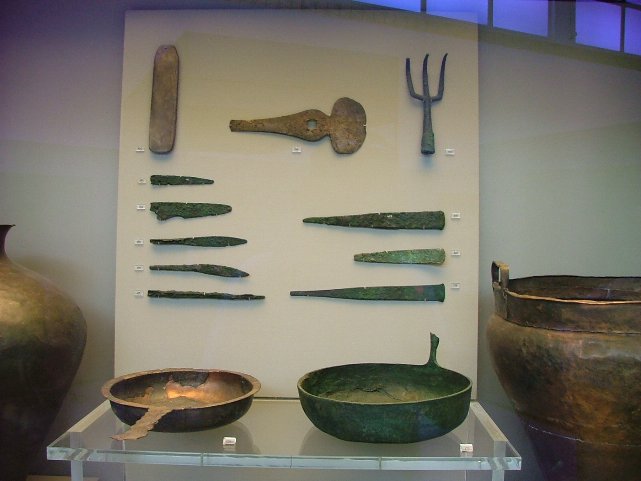 Bronze vessels and tools from Graves III, IV and V. Grave Circle A, Mycenae, 16 th century BC. National Archaeological Museum of Athens: Inventory number 514: Bronze axed head pierced from wooden handle, with engraved spiral decoration. It may have a ritual use. Grave IV. Inventory number 515: Bronze three-pronged fork. Grave IV. Inventory numbers 424, 438, 437 and 773: Bronze chisels. Graves IV and V. Inventory number 175: Bronze pan with horizontal or vertical handles. Grave III. Inventory 512: Whetstone. Grave IV.